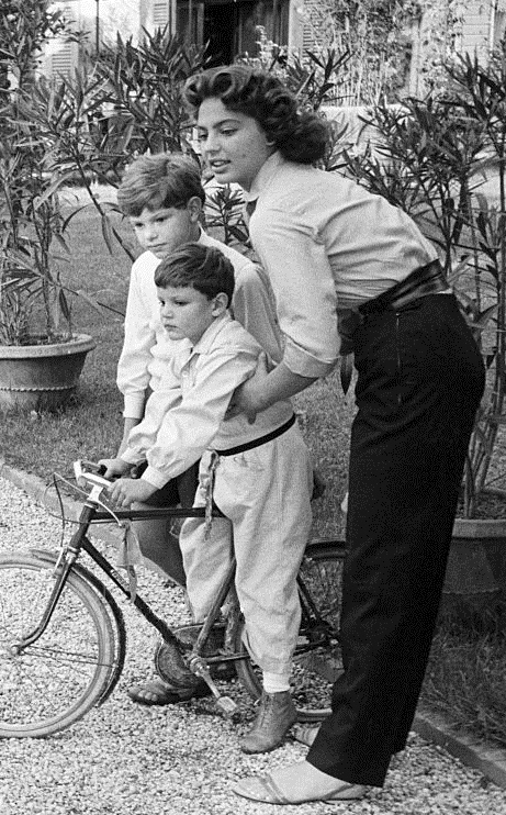 Italian actress Ira von Furstenberg (Virginia Carolina Theresa Pancrazia Galdina zu Furstenberg) playing in the garden with brothers Egon von Furstenberg and Sebastian von Furstenberg. She is about to marry Prince Alfonso of Hohenlohe-Langenburg. Venice, 21st September 1955.